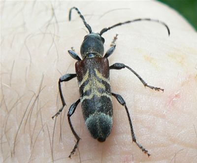 A type of Longhorned beetle, photographed in bedfords park, romford Site: Blog: Forum